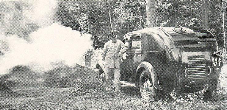 Panhard & Levassor DS X75 with Wood Gazifier (Prototype, 1934)